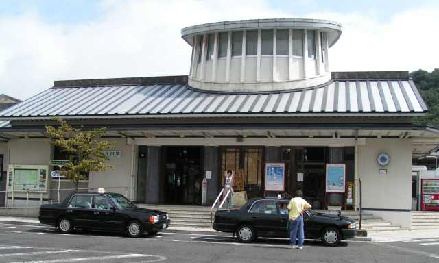 Arita Station, Arita Town, Saga, Japan